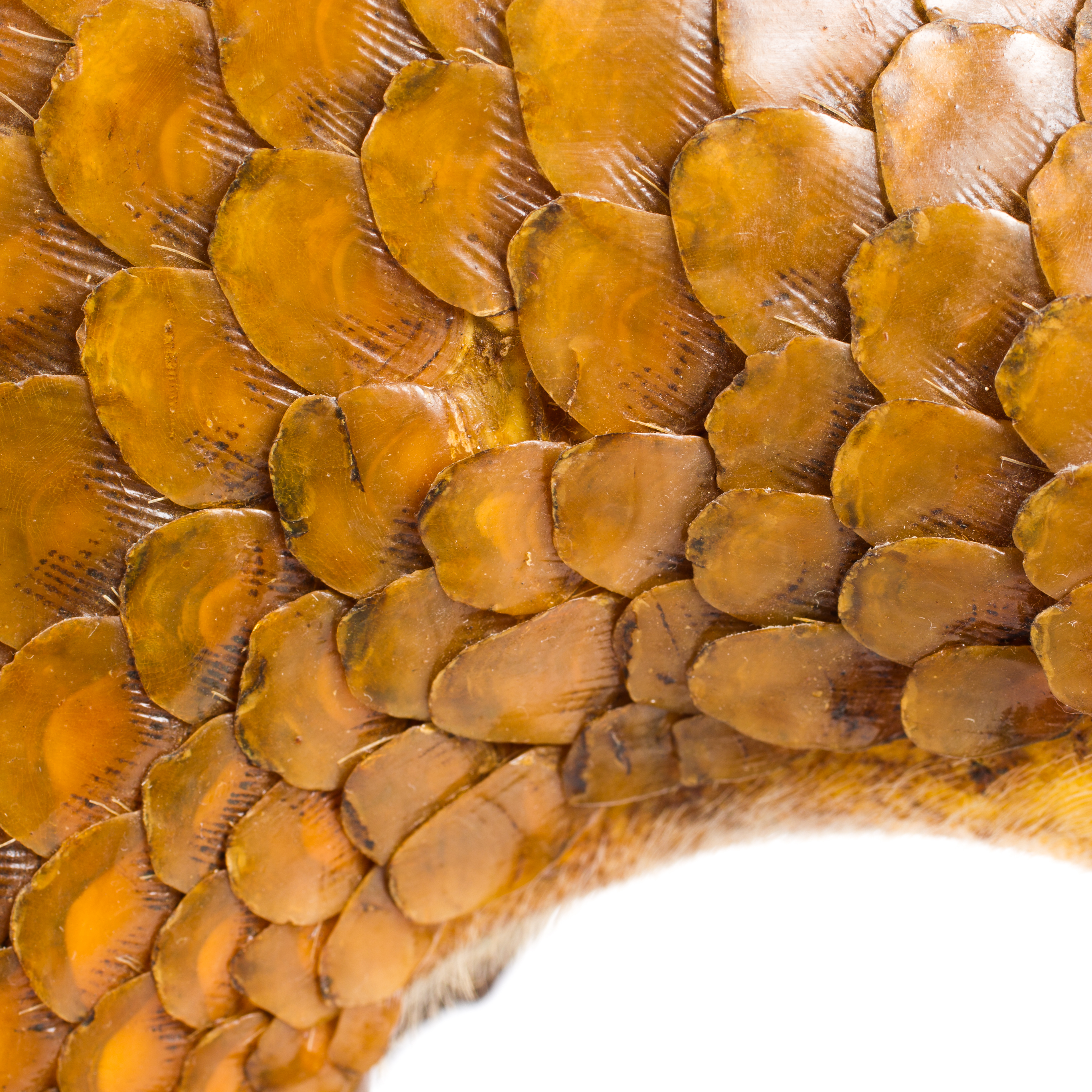 A pangolin in the permanent collection of The Children’s Museum of Indianapolis. This is specifically a ground pangolin (Manis temminckii), also known as Temminck's pangolin or the Cape pangolin. The pangolin is a protected species. This artifact was donated to the museum by the Office of Law Enforcement at the U.S. Fish and Wildlife Service.